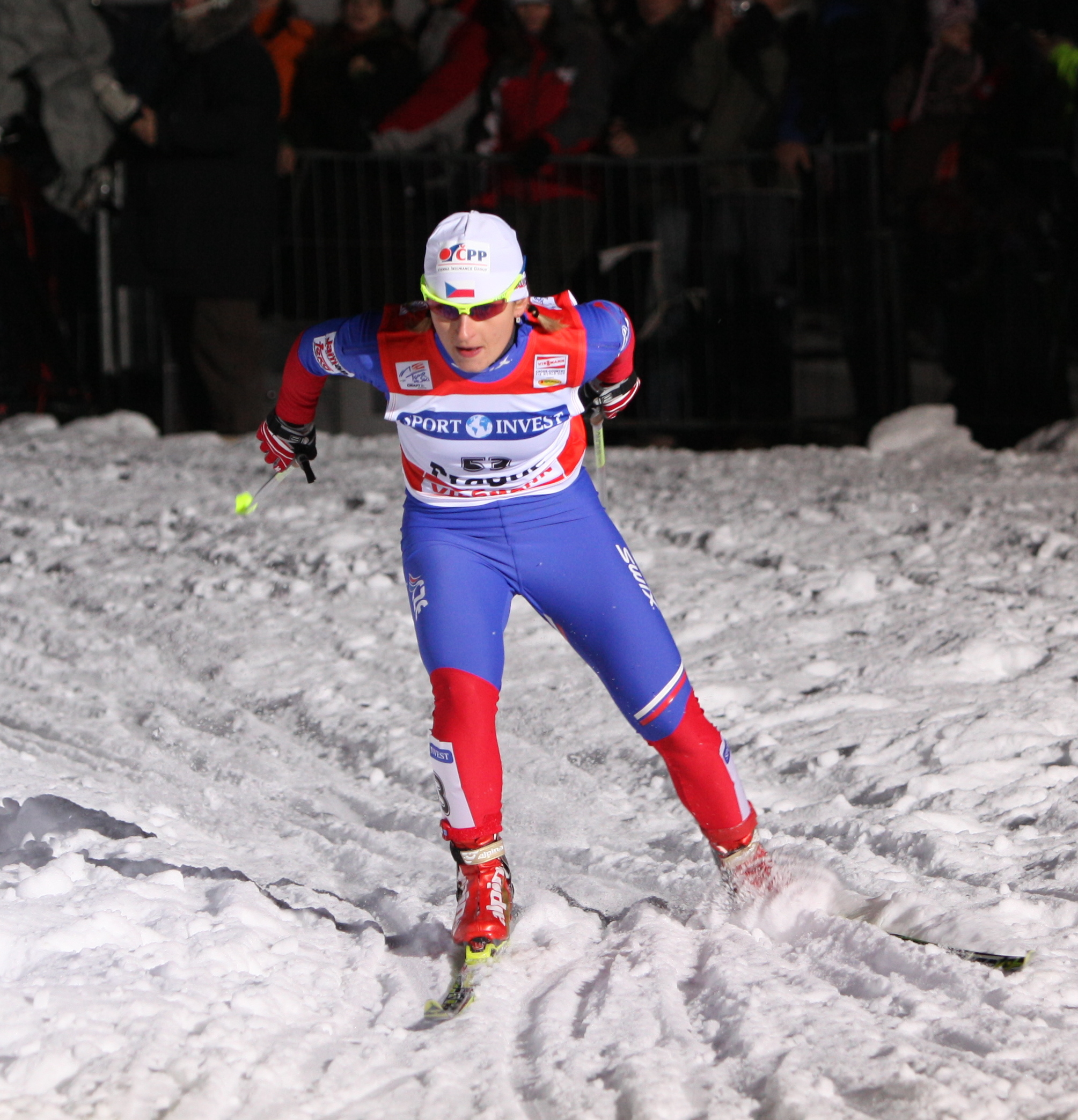 Ivana Janečková competes at Ski Sprint Praha in 2010